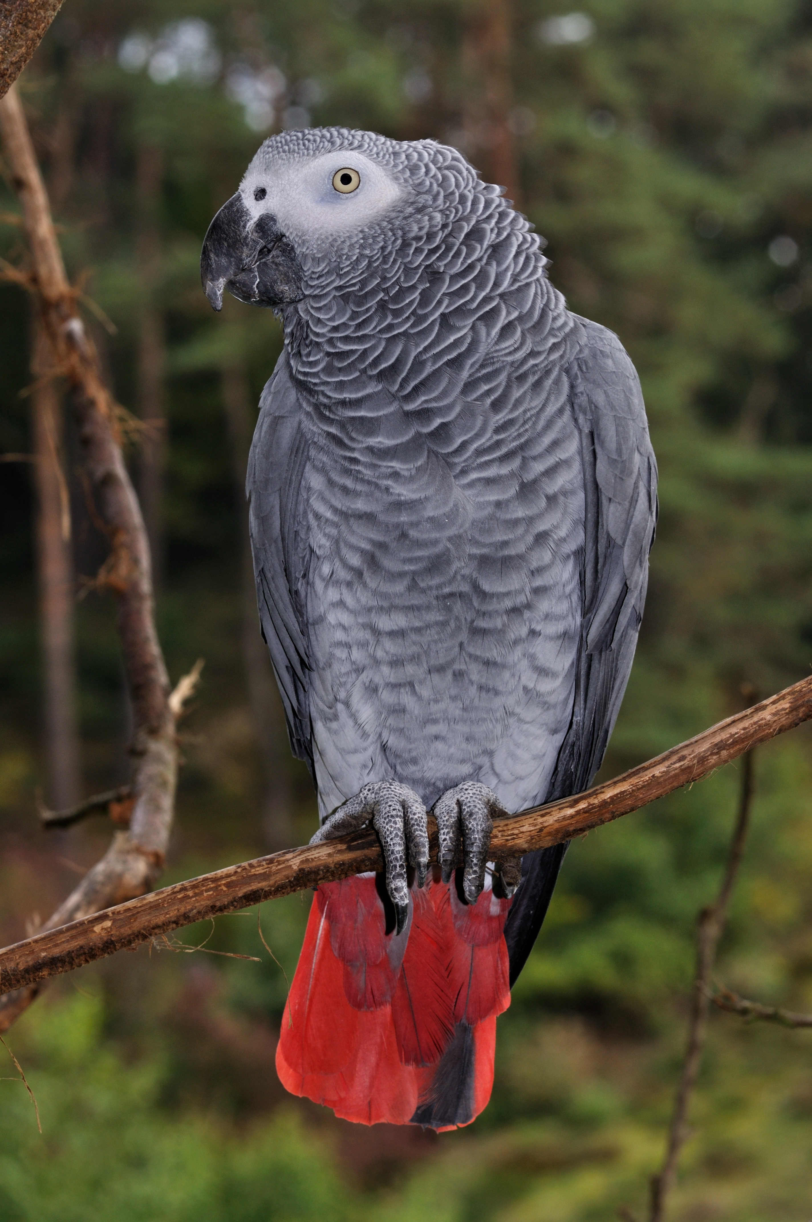 A Congo African Grey Parrot in Herborn Bird Park, Germany.